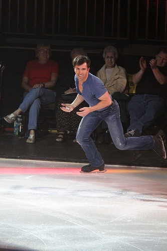 Stars on Ice in Manchester 2010.